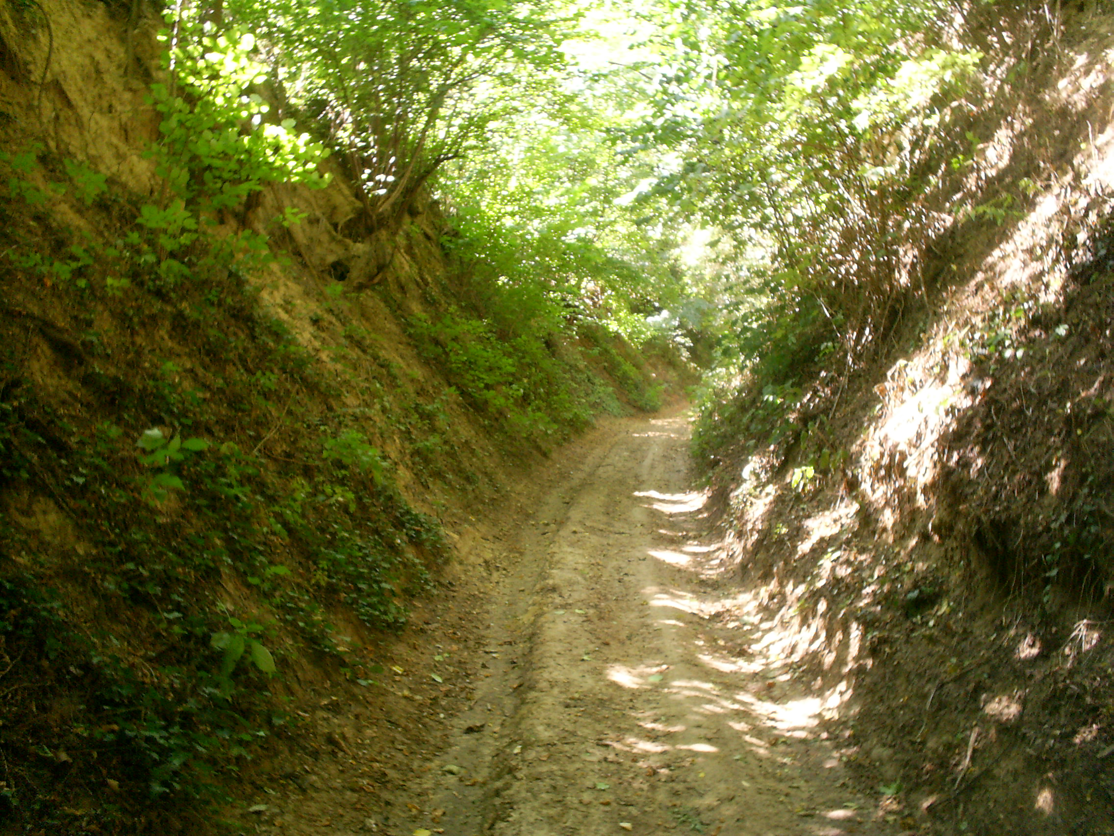 Deep road cut through loess in Gilice, a vineyard of Szulimán.